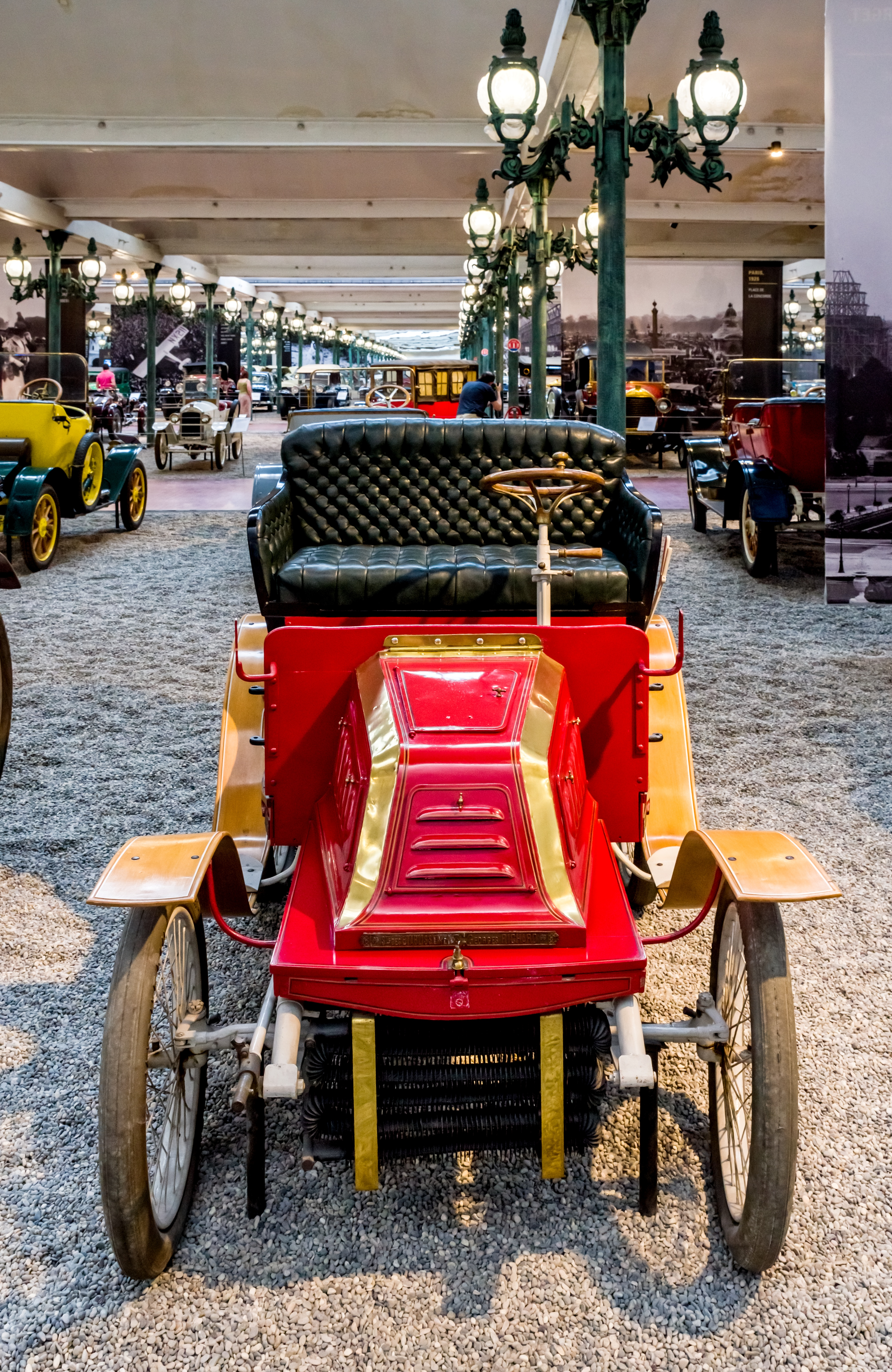 pictures from the Cité de l’Automobile – Musée National – Collection Schlump in Mulhouse, France ptictures from the 10. may 2018